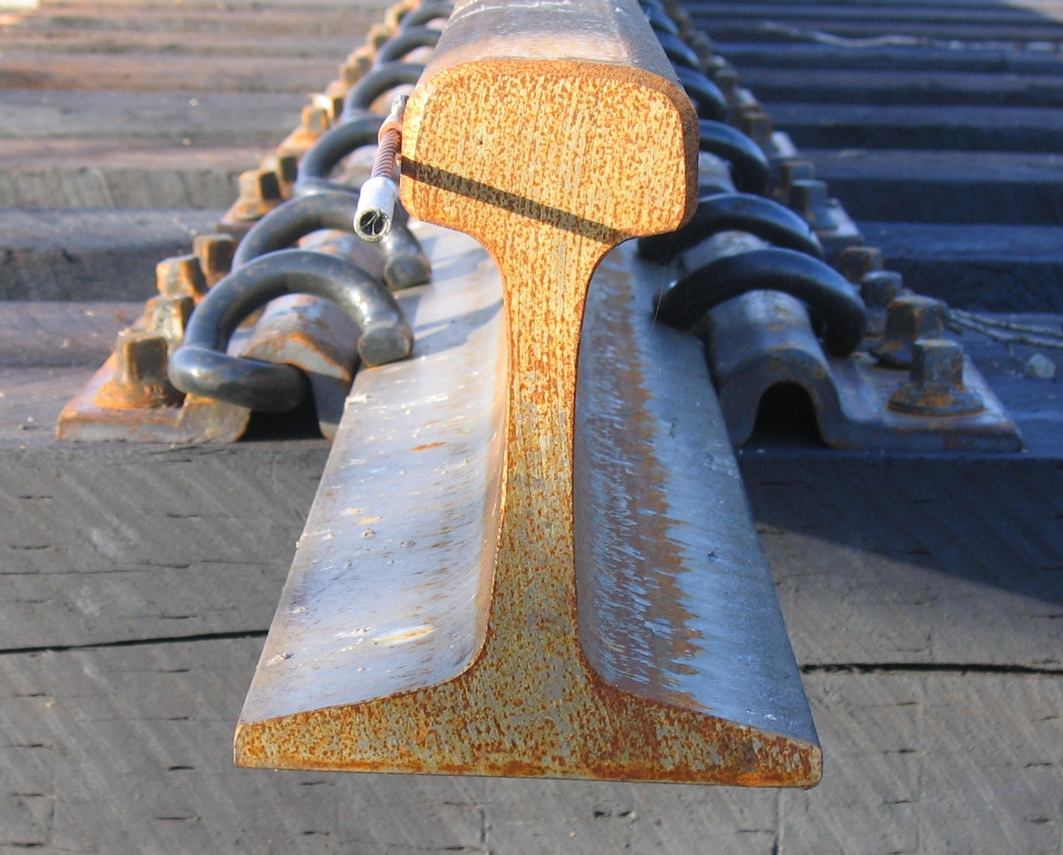 FT rail secured with Pandrol clips.